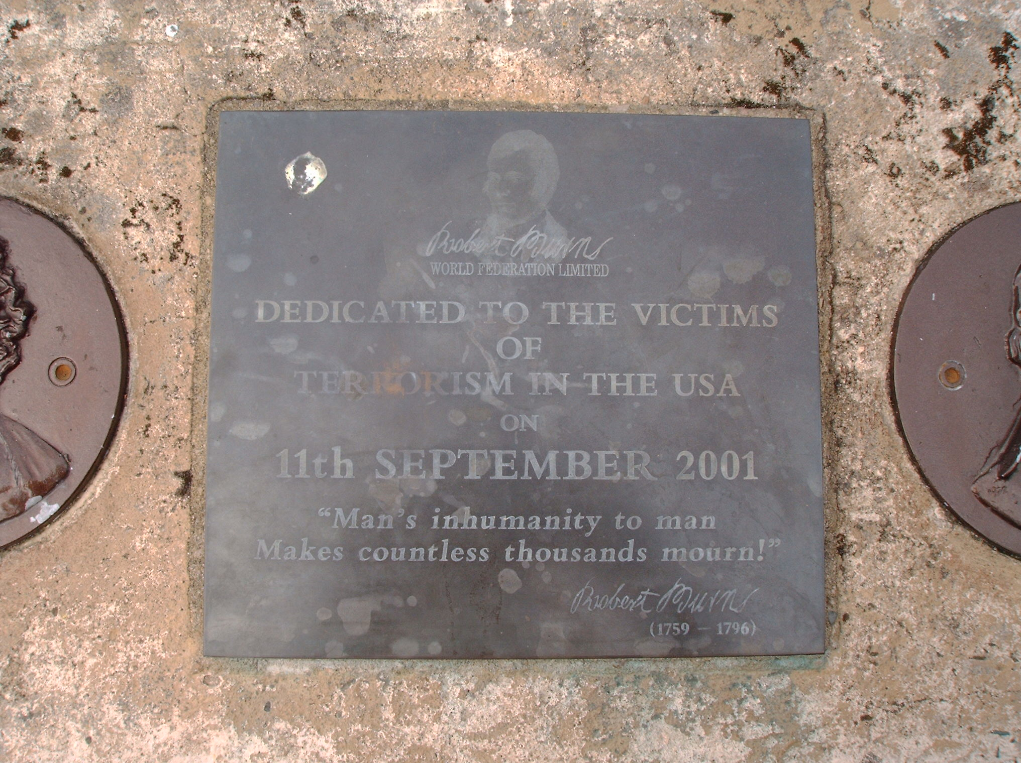 The Sep 11th memorial at Dean Castle, Kilmarnock